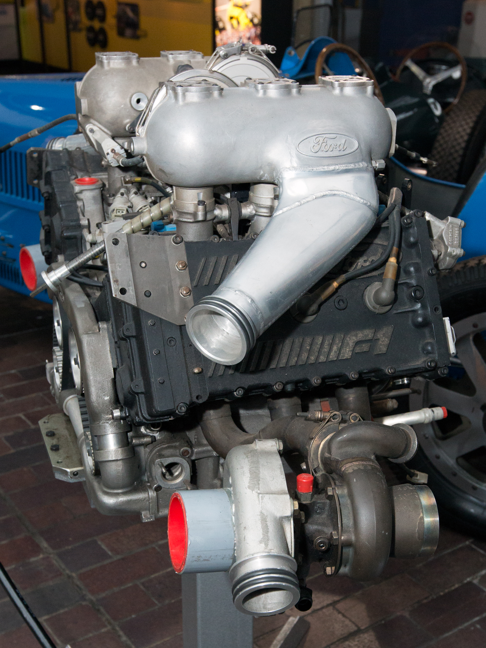 Cosworth GBA engine